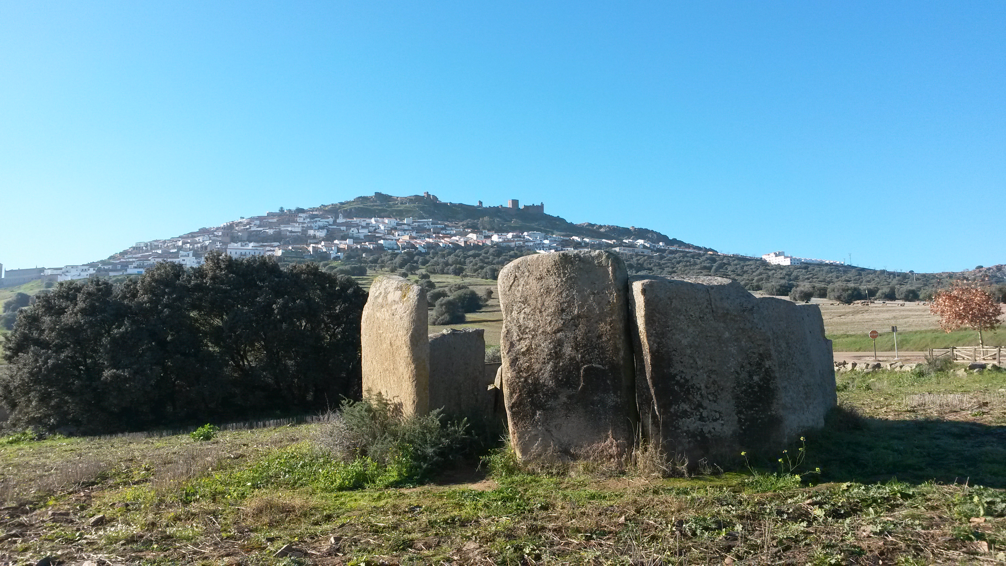 Dolmen, village and castle of Magacela (Badajoz, Spain)